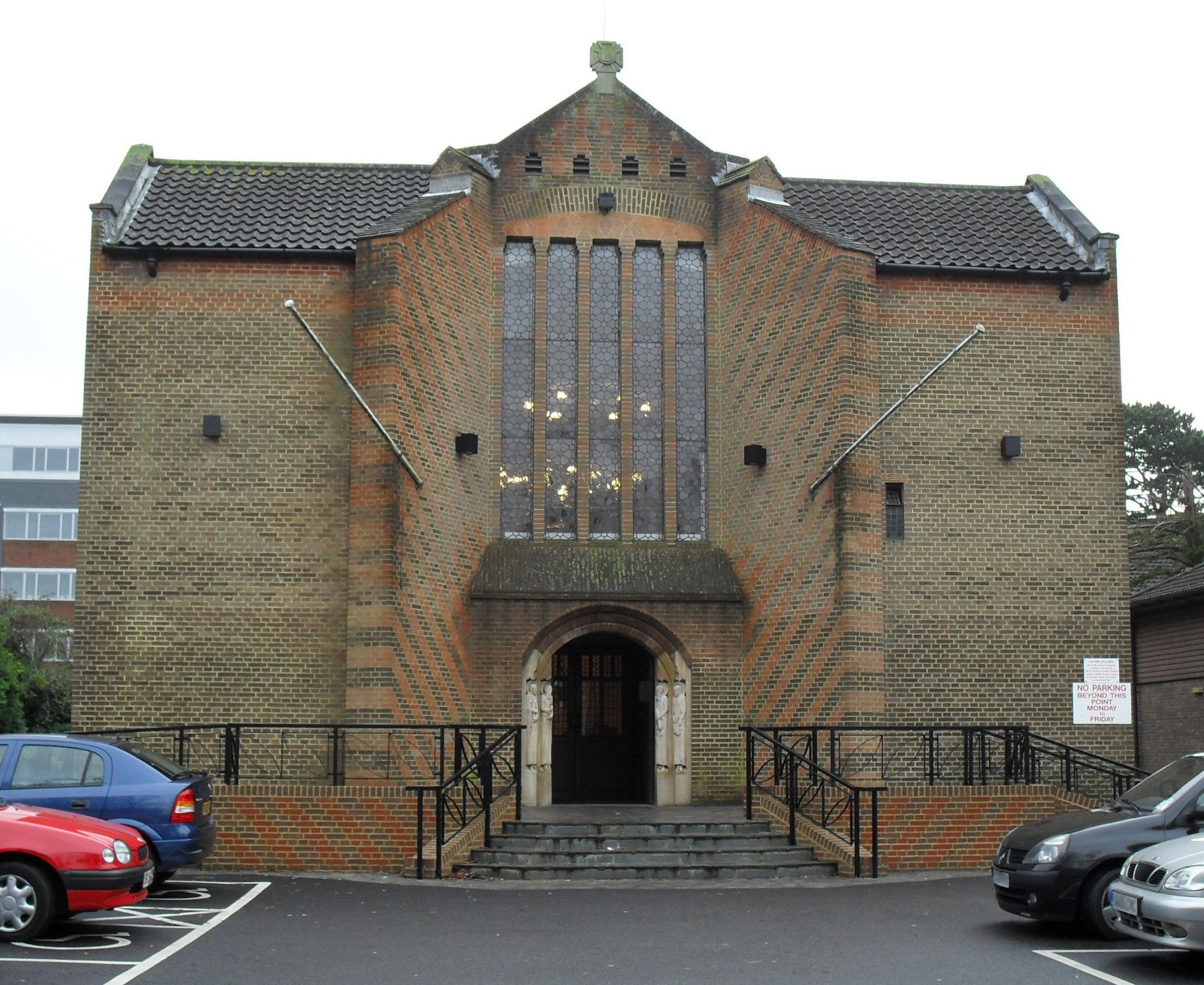 Friary Church of St Francis and St Anthony: a Roman Catholic church in the town centre (notionally in the Northgate neighbourhood) of Crawley, West Sussex, England. Listed at Grade II by English Heritage on 25 October 2007 (Code #503770).